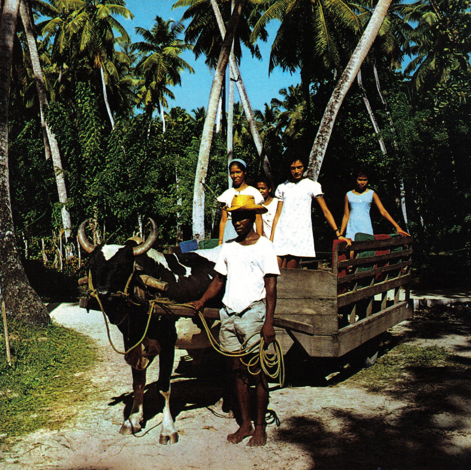 Public transport by ox-cart on La Digue Island, Seychelles